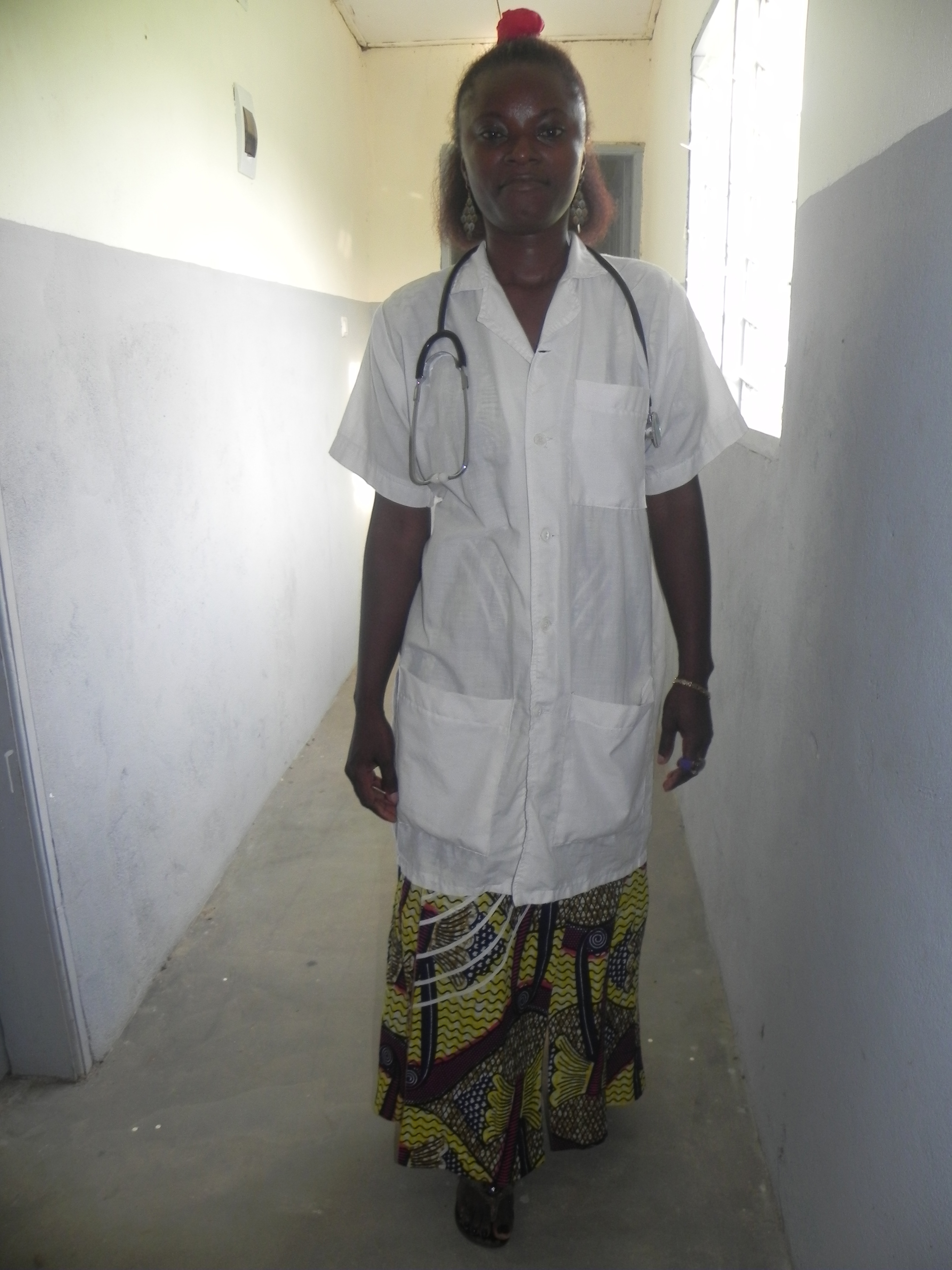 Jeune infirmière dans le centre de santé à Edea au Cameroun This is an image of "African people at work" from Cameroon